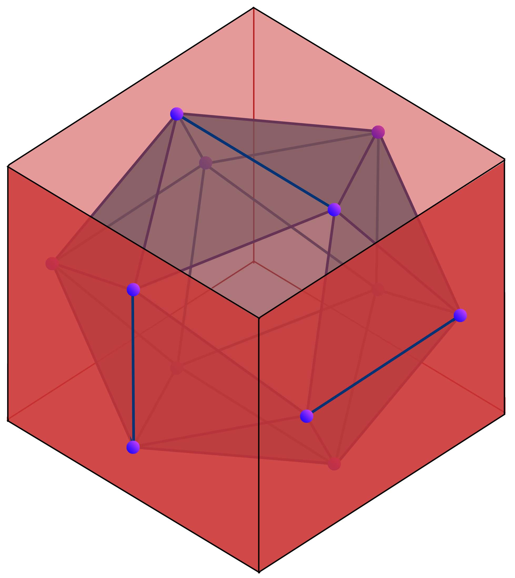 An icosahedron within a cube. All vertices of the icosahedron, and six edges, lie within the faces of the cube.